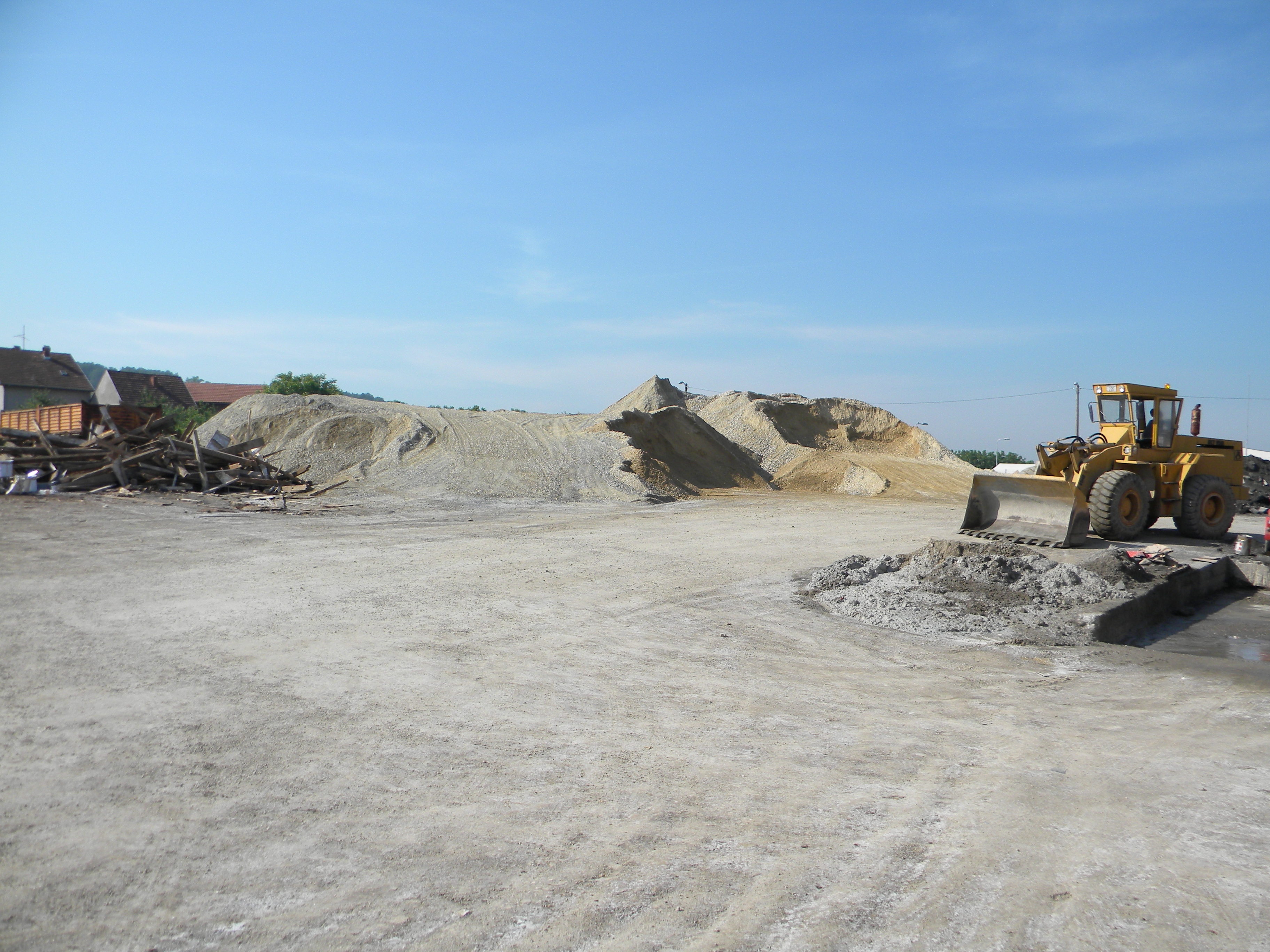 JKP NISKOGRADNJA CITY OF KRAGUJEVAC